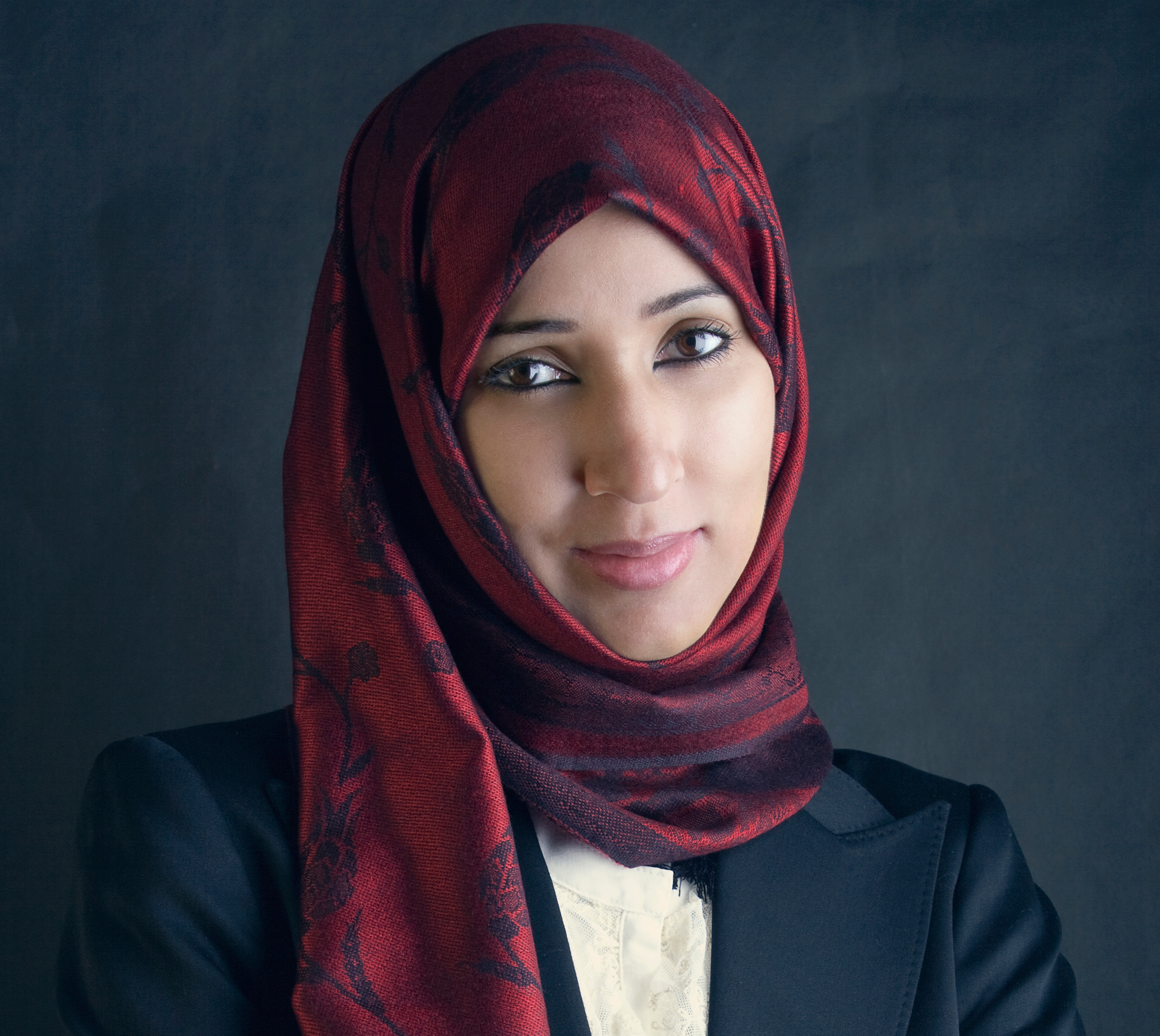 A cropped photo of Manal al-Sharif.